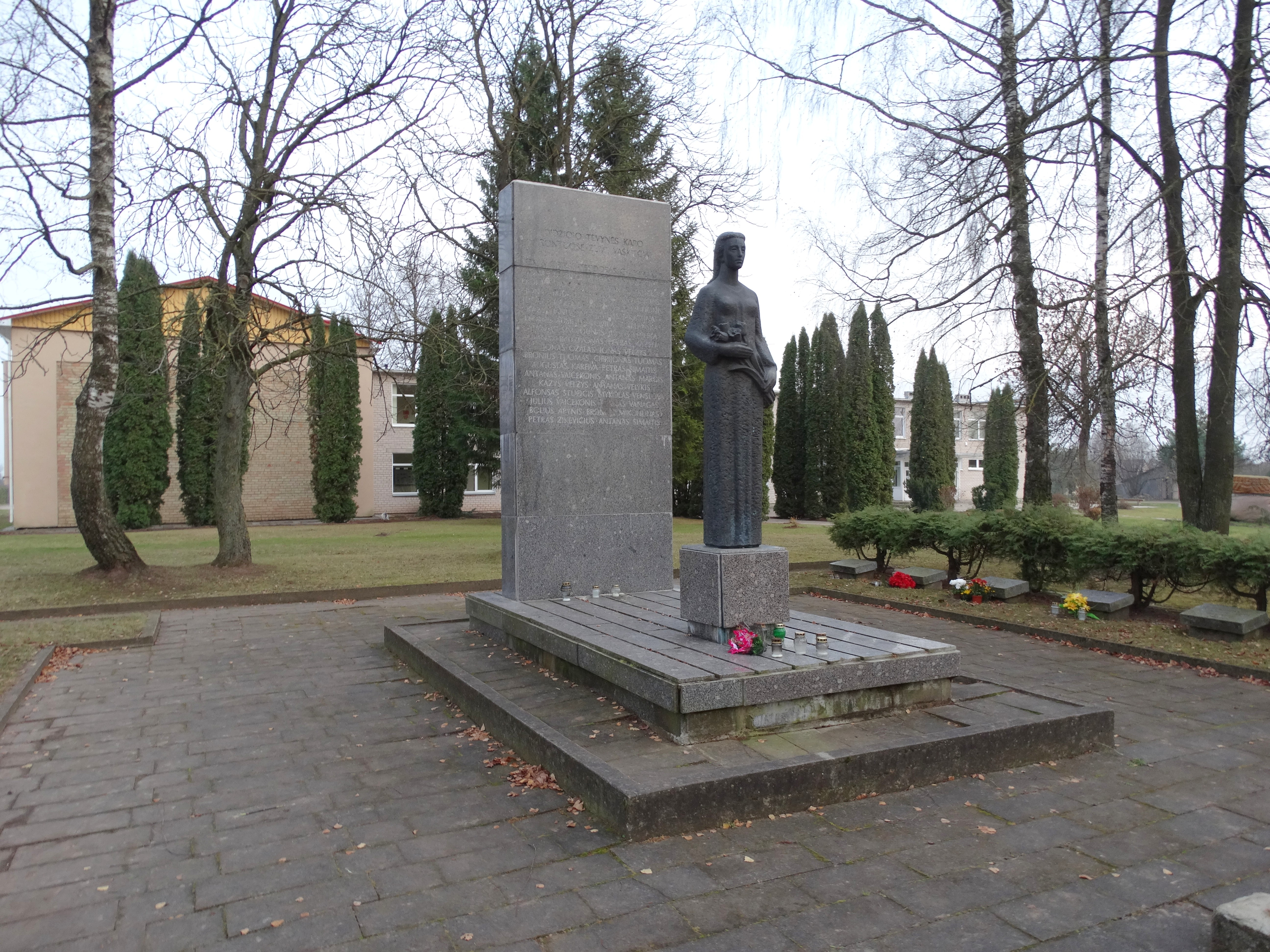 Monument to WWII victims in Vaškai, Pasvalys district, Lithuania